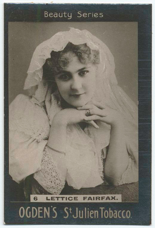 Lettice Fairfax in a cigarette card